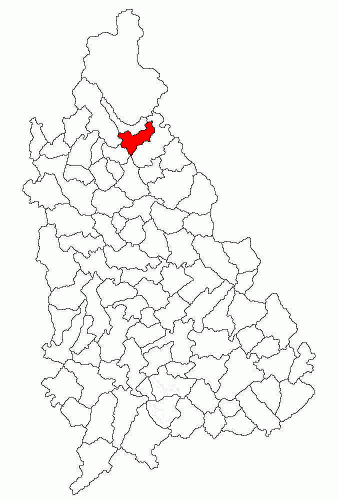 Locator map of Buciumeni Commune in Dâmbovița County, Romania